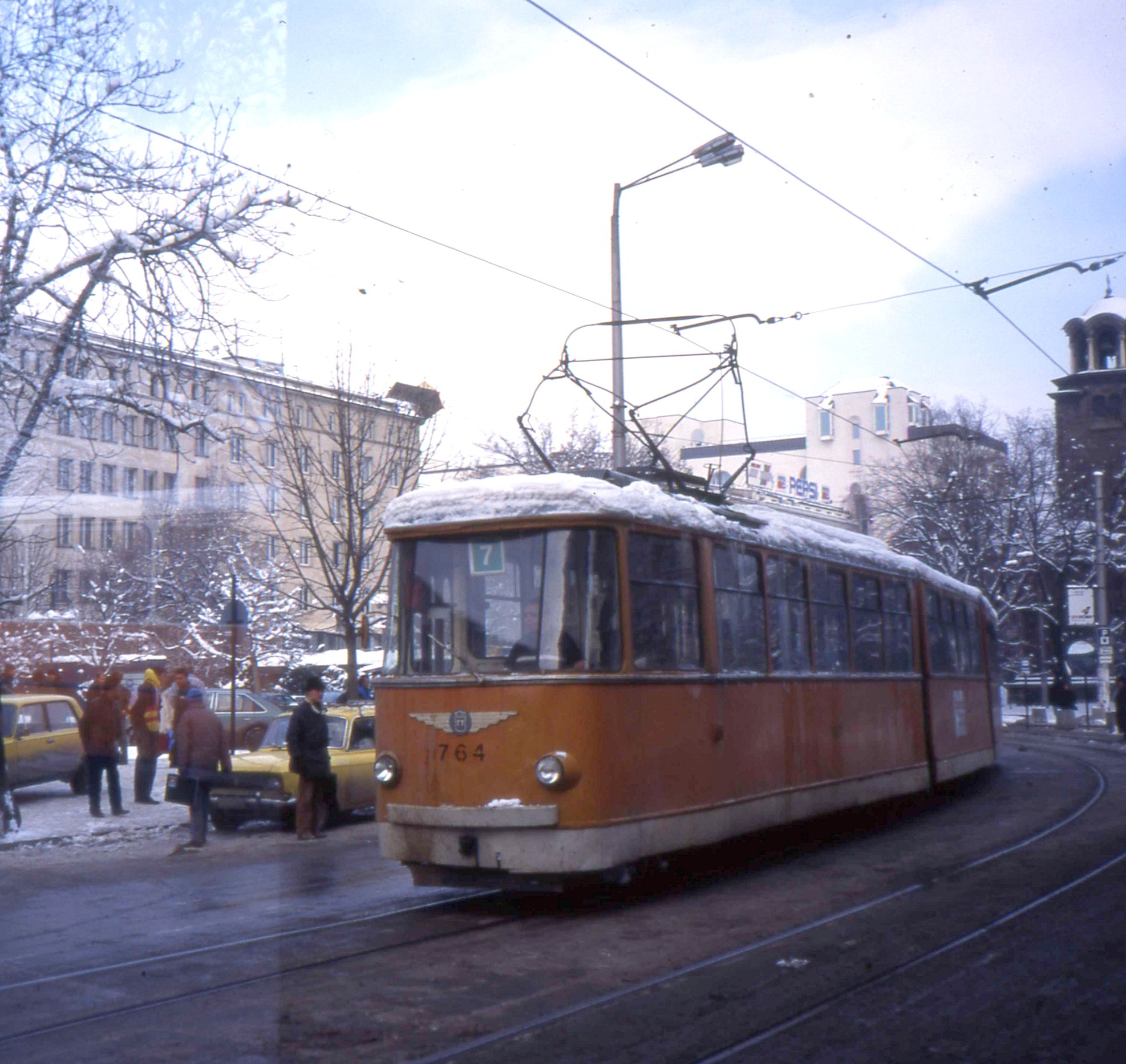 A slight double exposure which does not entirely detract, as the yellow Moskvich cars add interest and colour. A snow covered articulated Sofia 70 tram, nr 764 is running on route 7. 181 of these attractive Sofia 70 cars were put into service throughout the 1970s, even appearing on postal stationery - they had letter boxes in the side - but all except no 174 have been withdrawn. Numbered 730 - 799 and 101-211. This one is 764.